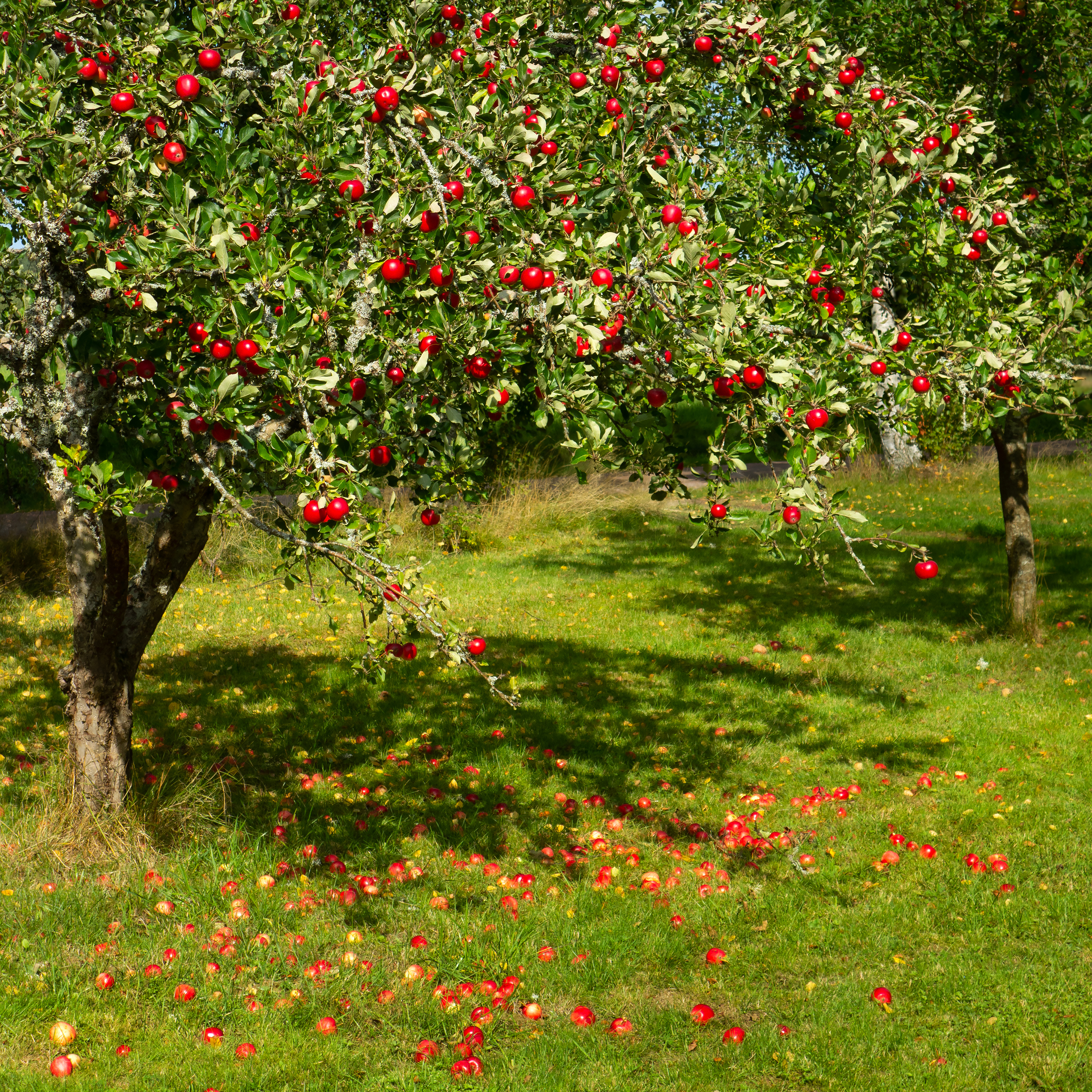 Tree with red apples 'Särsö' in Barkedal, Lysekil Municipality, Sweden. The apples ripened early and were unusually red on the side facing south and the camera, caused by the uncharacteristically many hours of sunlight during the hot summer of 2018.